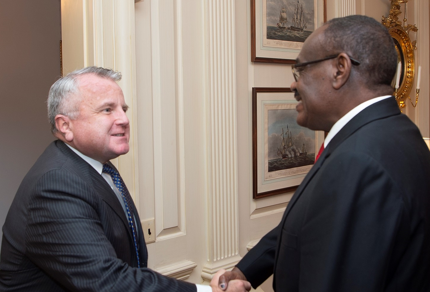 Deputy Secretary of State John J. Sullivan meets with Sudanese Foreign Minister Dirdeiry Mohamed Ahmed at the U.S. Department of State in Washington, D.C, on November 6, 2018. [State Department photo/ Public Domain]